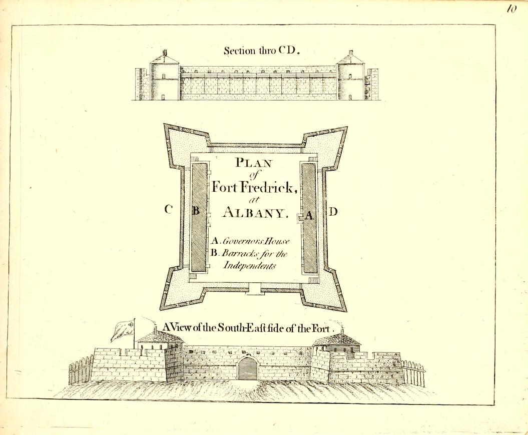 Plan of Fort Frederick at Albany, New York.